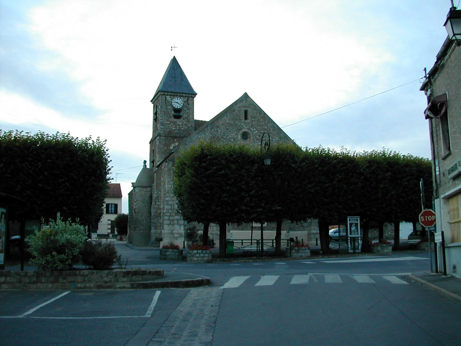 Saint-Martin's Church in Vert-le-Petit